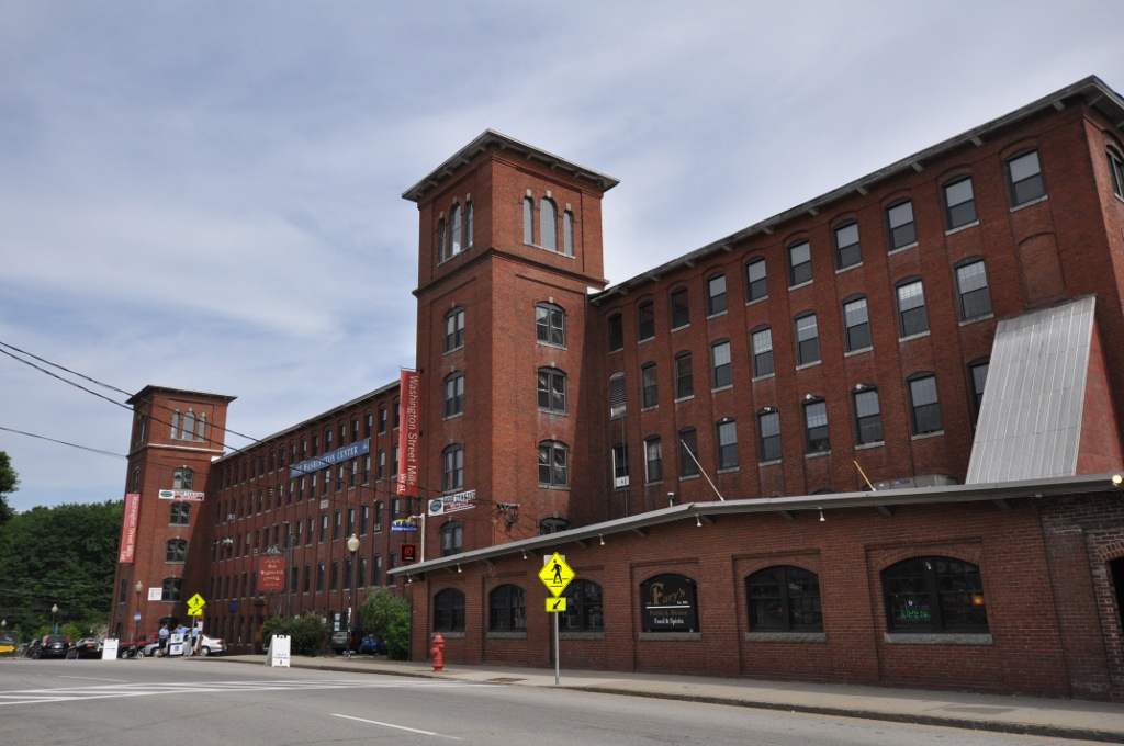 Cocheco Mill Number 1 (Washington Street Mill), Dover, New Hampshire.